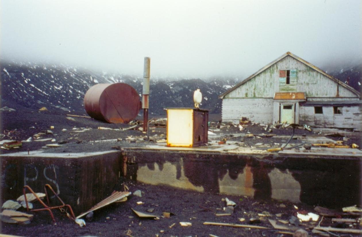 Picture published by the author Lyubomir Ivanov.